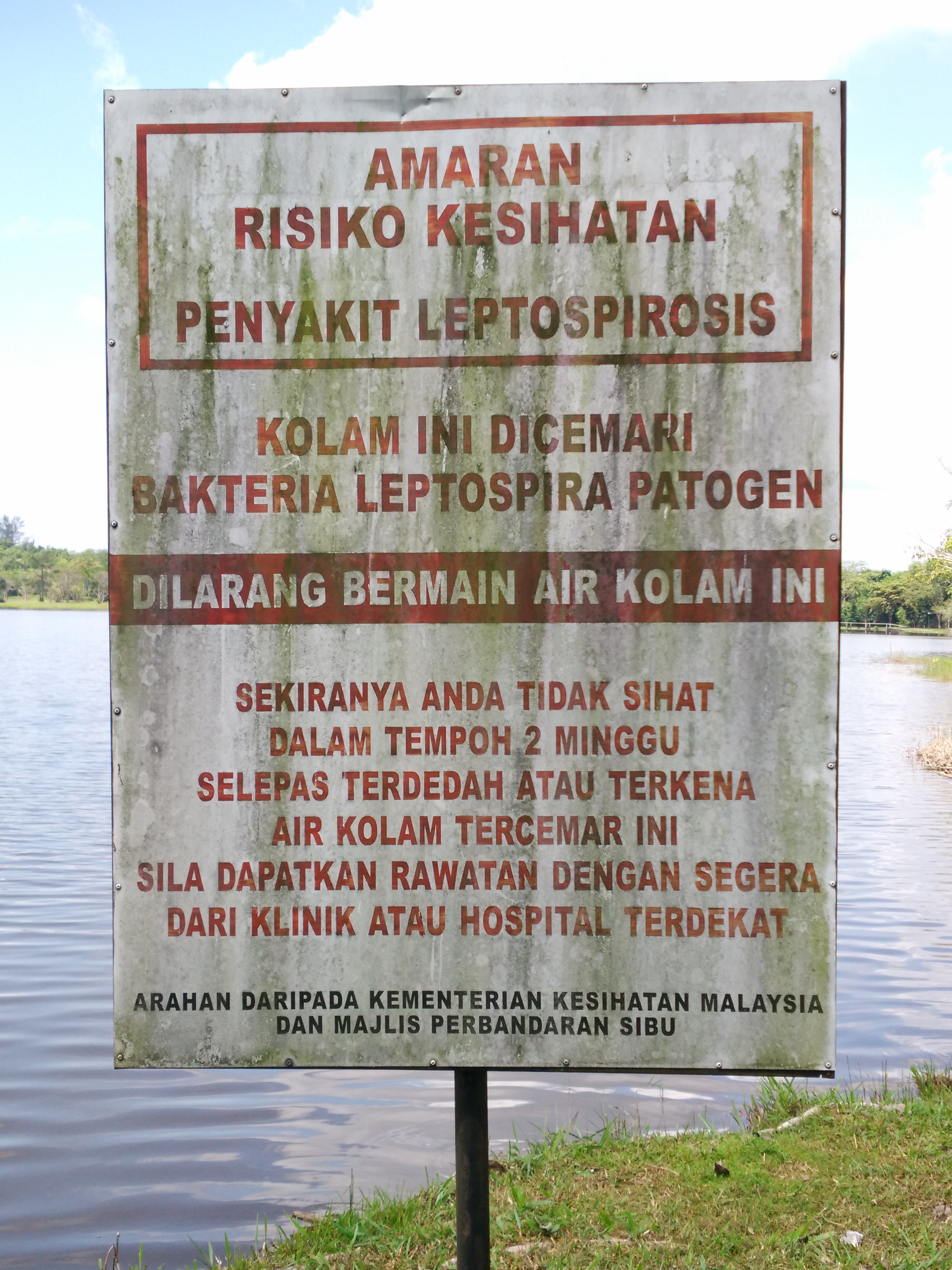 A Leptospirosis warning notice board (in Malay) located at Permai Lake Garden, Sibu, Sarawak, Malaysia. It reads:"Warning! Health risk. The leptospirosis disease. This lake is polluted by the a pathogenic bacteria called Leptospira. You are forbidden from swimming in this lake. If you feel unwell two weeks after exposed to the water in this lake, please seek treatment as soon as possible from the nearest clinic or hospital. Instruction from the Malaysian Ministry of Health and Sibu Municipal Council."